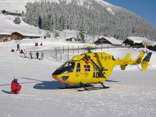 Helicopter Christoph 1 in a mountain rescue mission